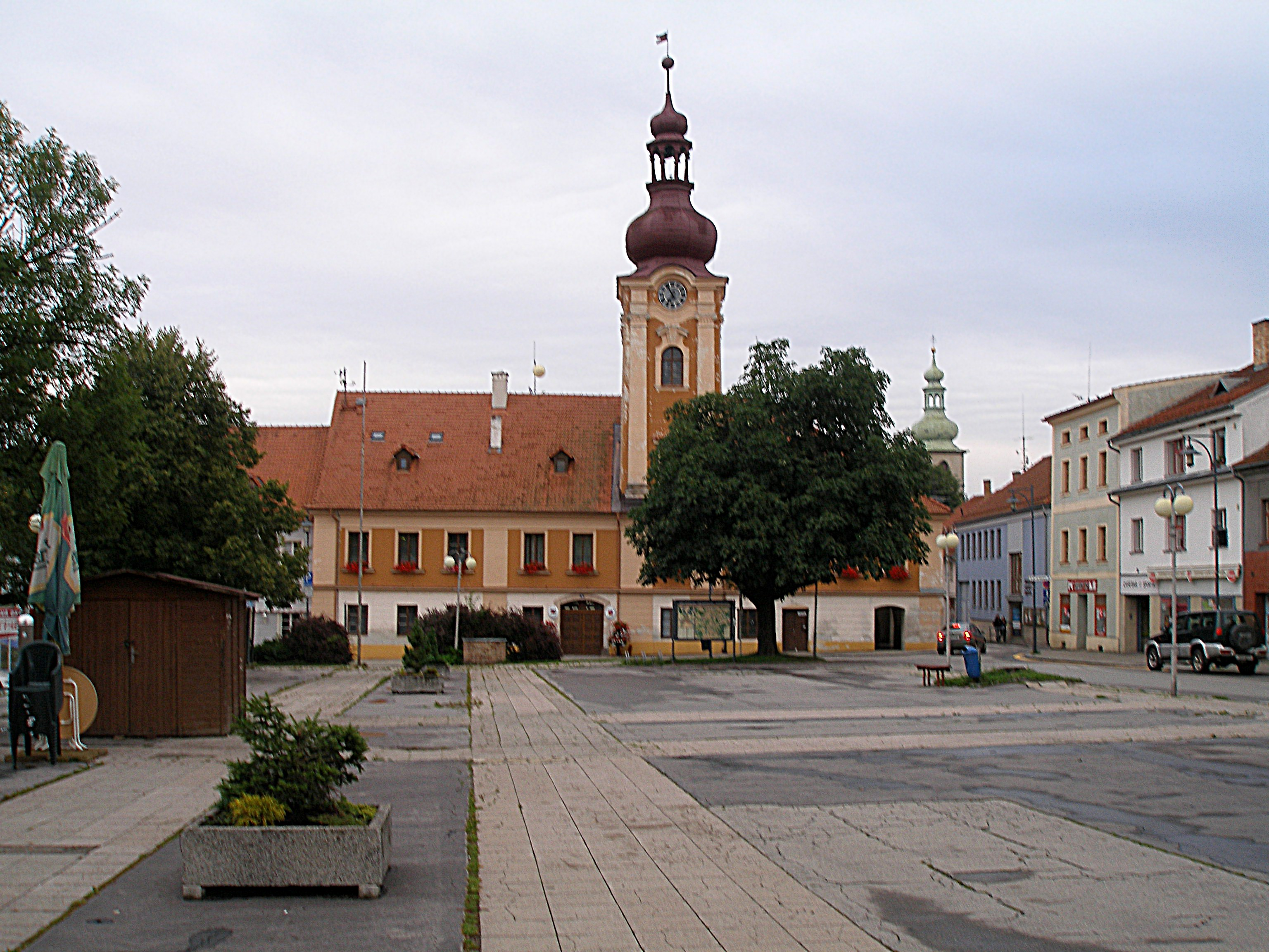 City hall in Kaplice